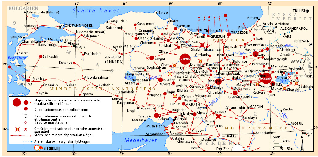 Map of the Armenian Genocide in 1915